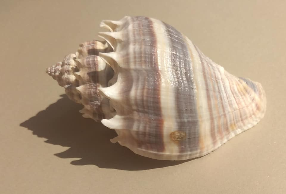 The lateral view of Melongena corona (Gmelin, 1791)[1]; from Florida to N. E. Mexico - Gulf of Mexico[2]. ABBOTT, R. Tucker; DANCE, S. Peter (1982). Compendium of Seashells. A color Guide to More than 4.200 of the World's Marine Shells. New York: E. P. Dutton. p. 175. 412 pp. ISBN 0-525-93269-0